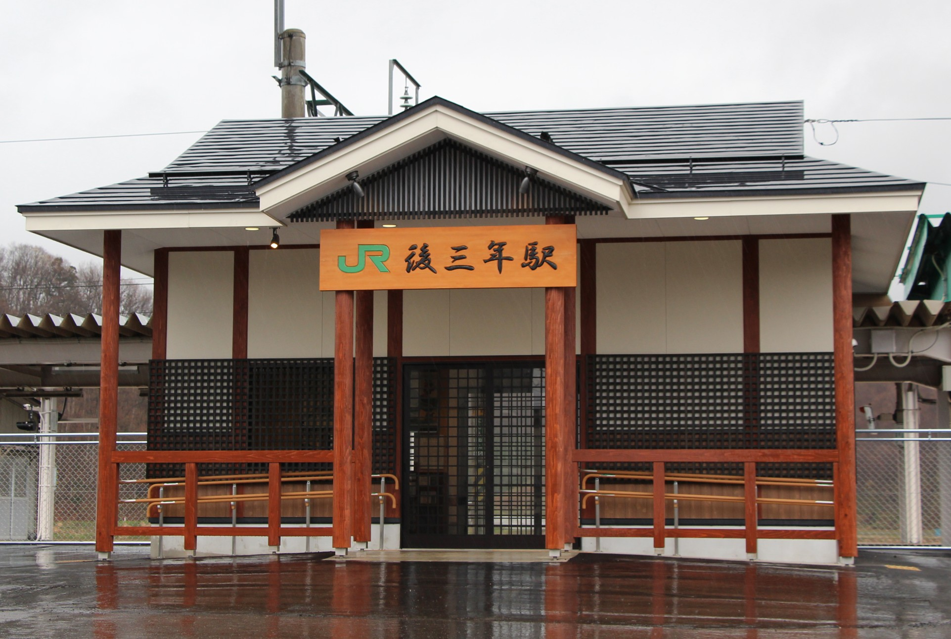 Gosannen station, completed in 2012. Taken on May 2, 2013.